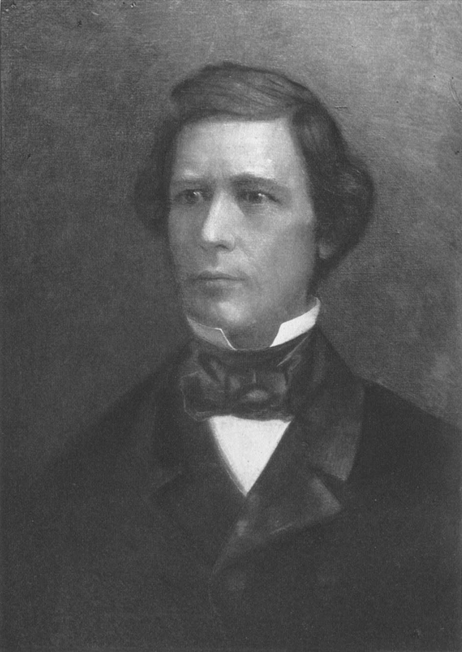 portrait of David Wilmot (1814-1868) U.S. Senator from Pennsylvania